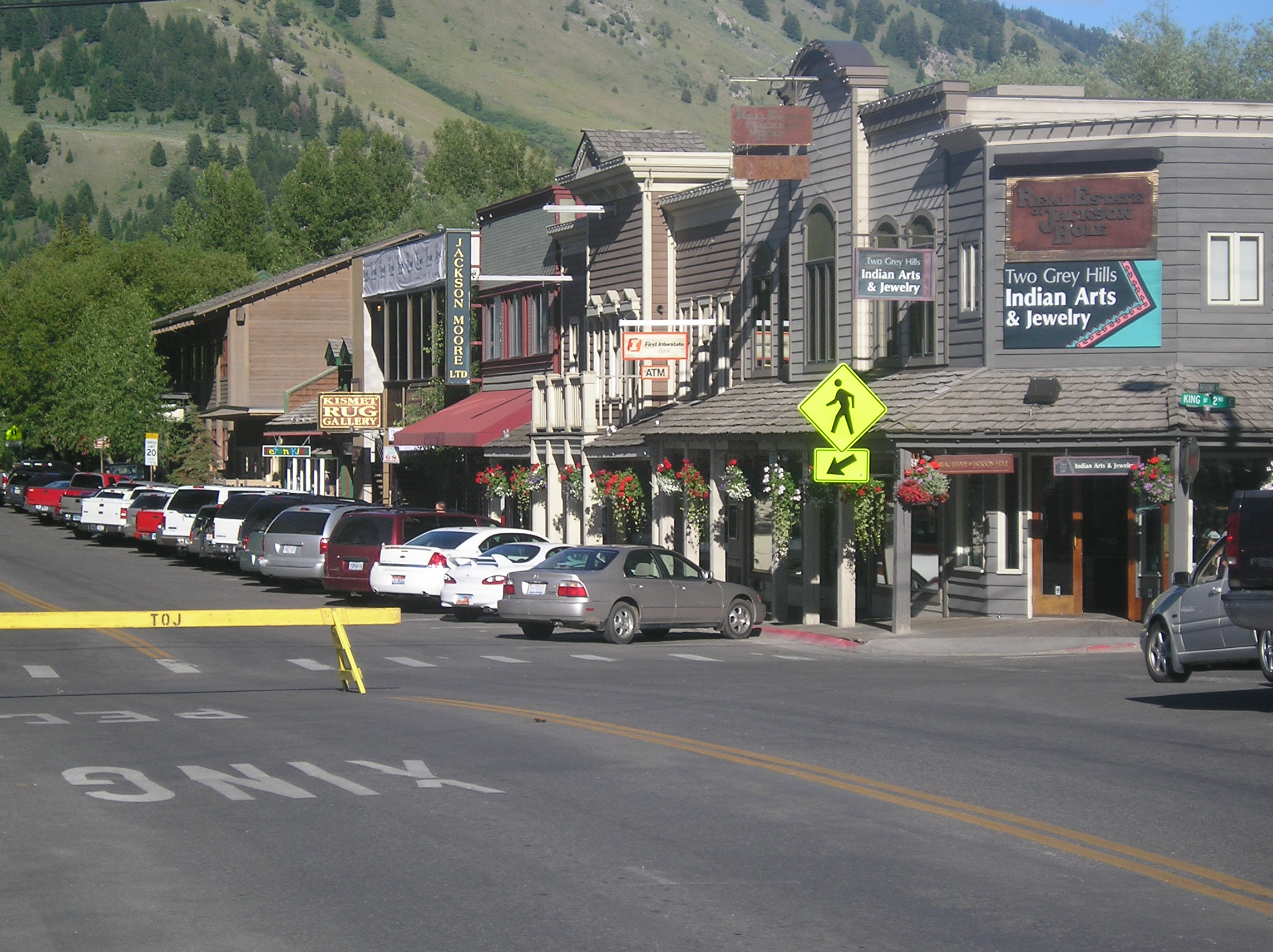 Street near town square, Jackson, Wyoming.